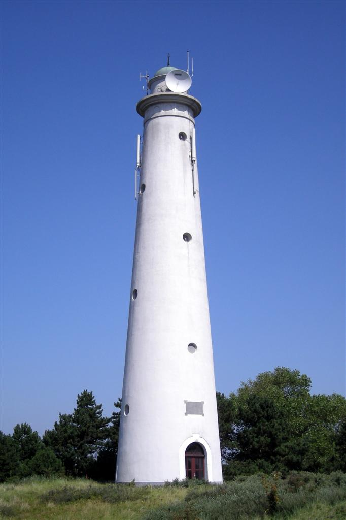 Former Lighthouse and Watertower of Schiermonnikoog